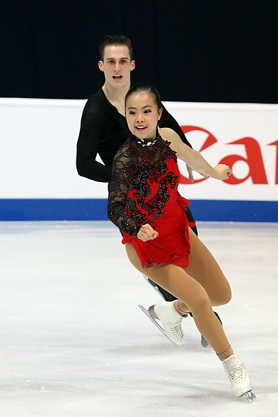 Sarah Feng and TJ Nyman - 2019 Junior Worlds